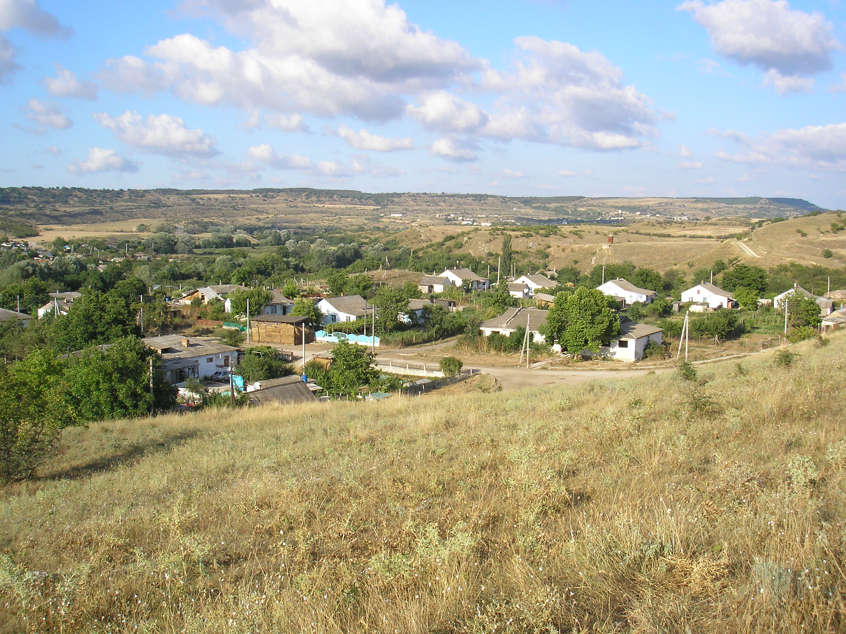 Village Krasnaya Zarya, Bakhchisaray district, Crimea